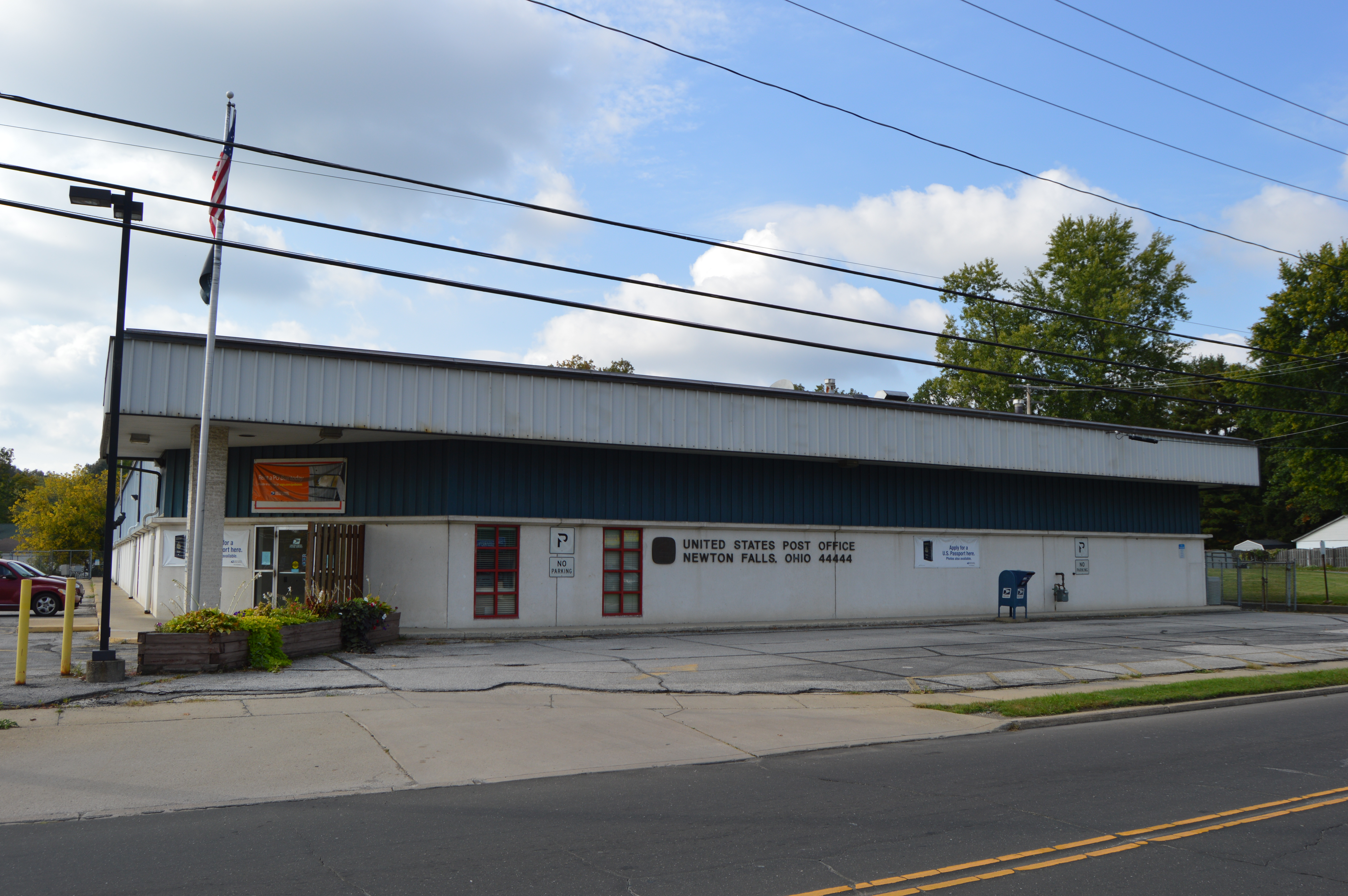 Front of the Newton Falls post office, located at 112 Ridge Road (State Route 534) in Newton Falls, Ohio, United States. Note the unusual ZIP code of this post office, 44444.